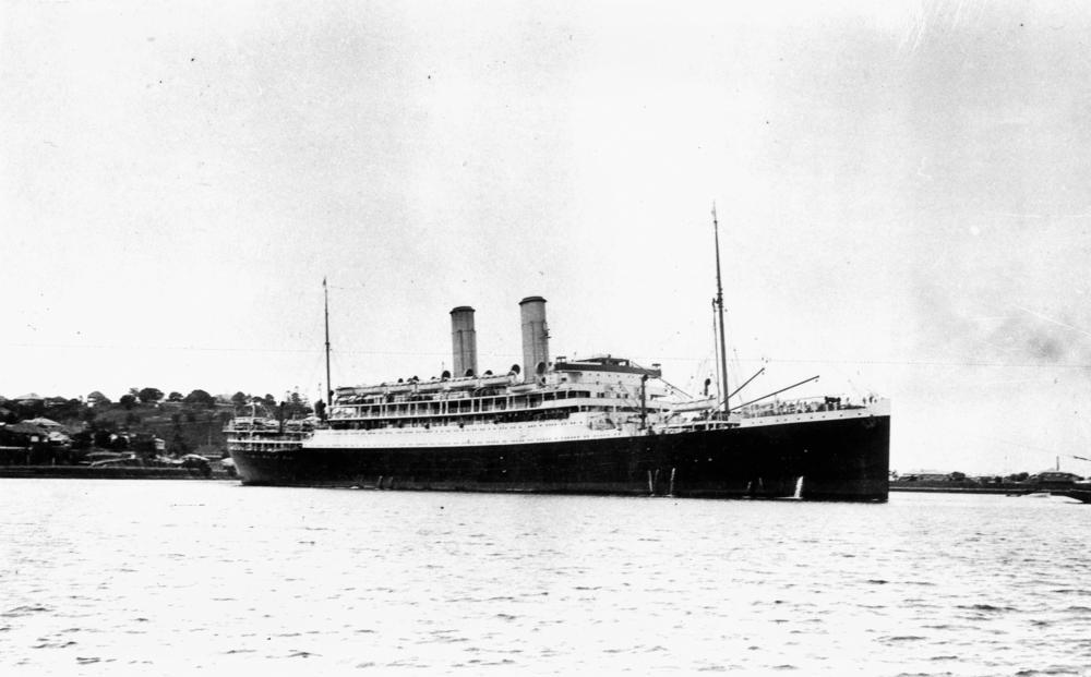 Orient Steam Navigation Co passenger liner Oronsay, built in 1925 by John Brown & Co at Clydebank, Scotland and sunk by a U-boat in 1942 in the Atlantic.